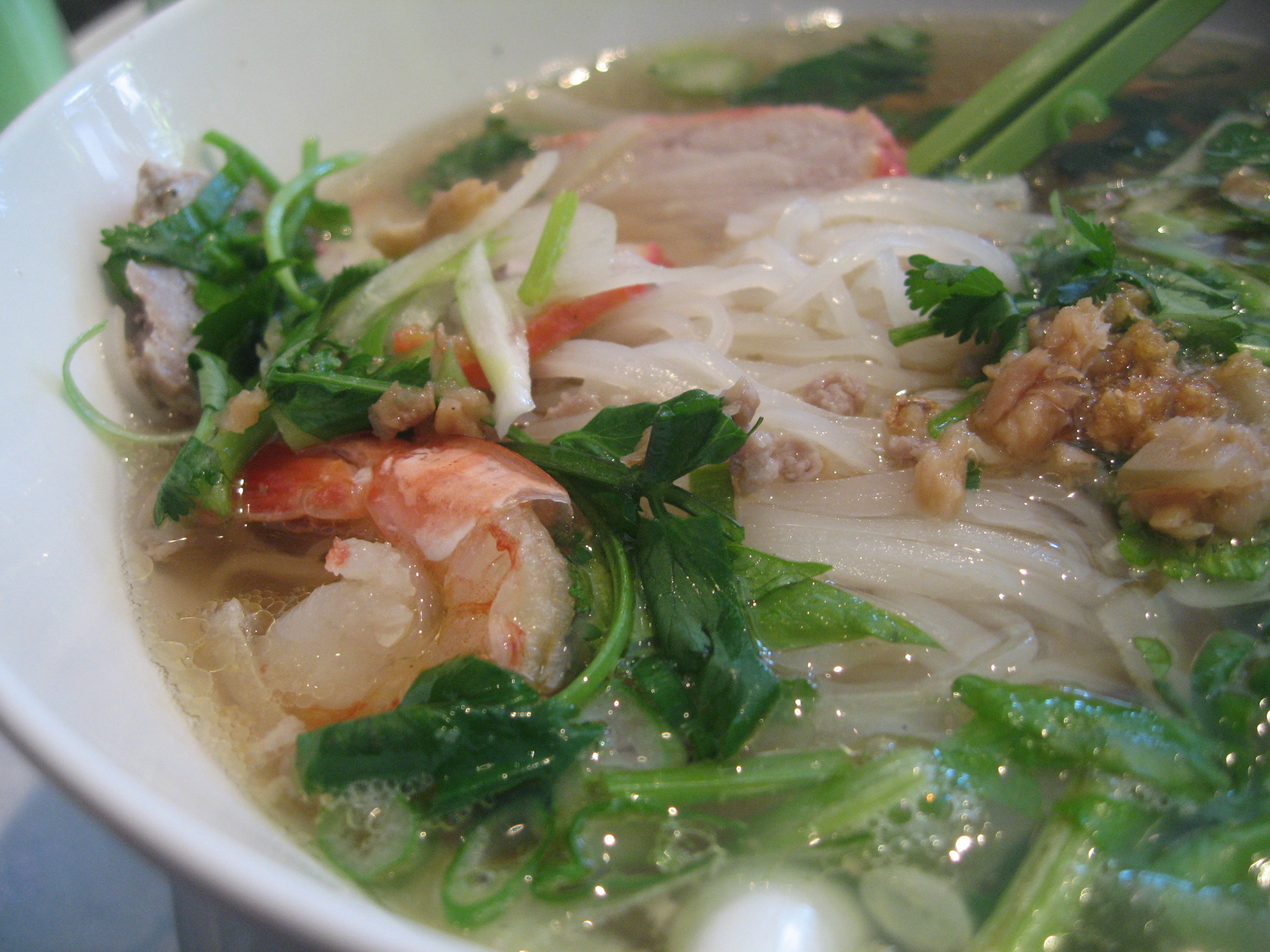 Cambodian-style noodles (Nam Vang is the Vietnamese name for the city of Phnom Penh) with shrimp, squid and pork and the signature fried garlic. @ Ha&VL Sandwiches